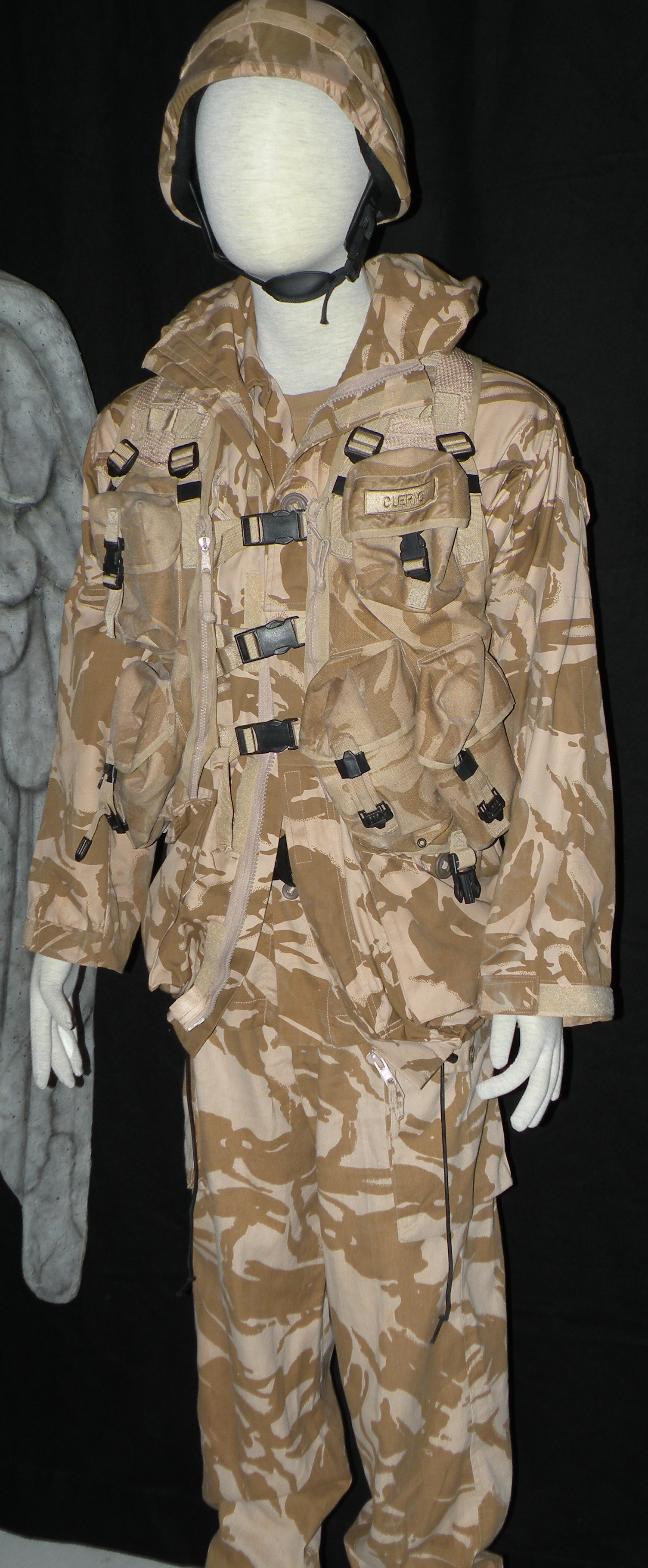 Doctor who convention Doctor Who Experience